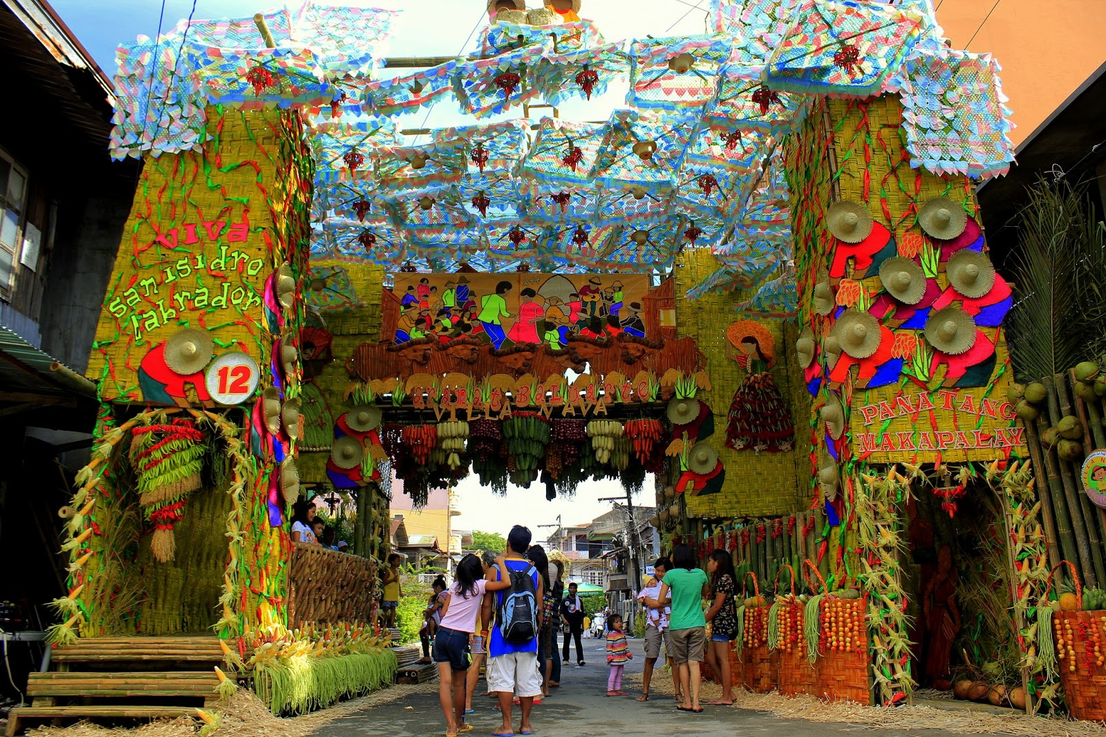 Araña't Baluarte Festival of Gumaca